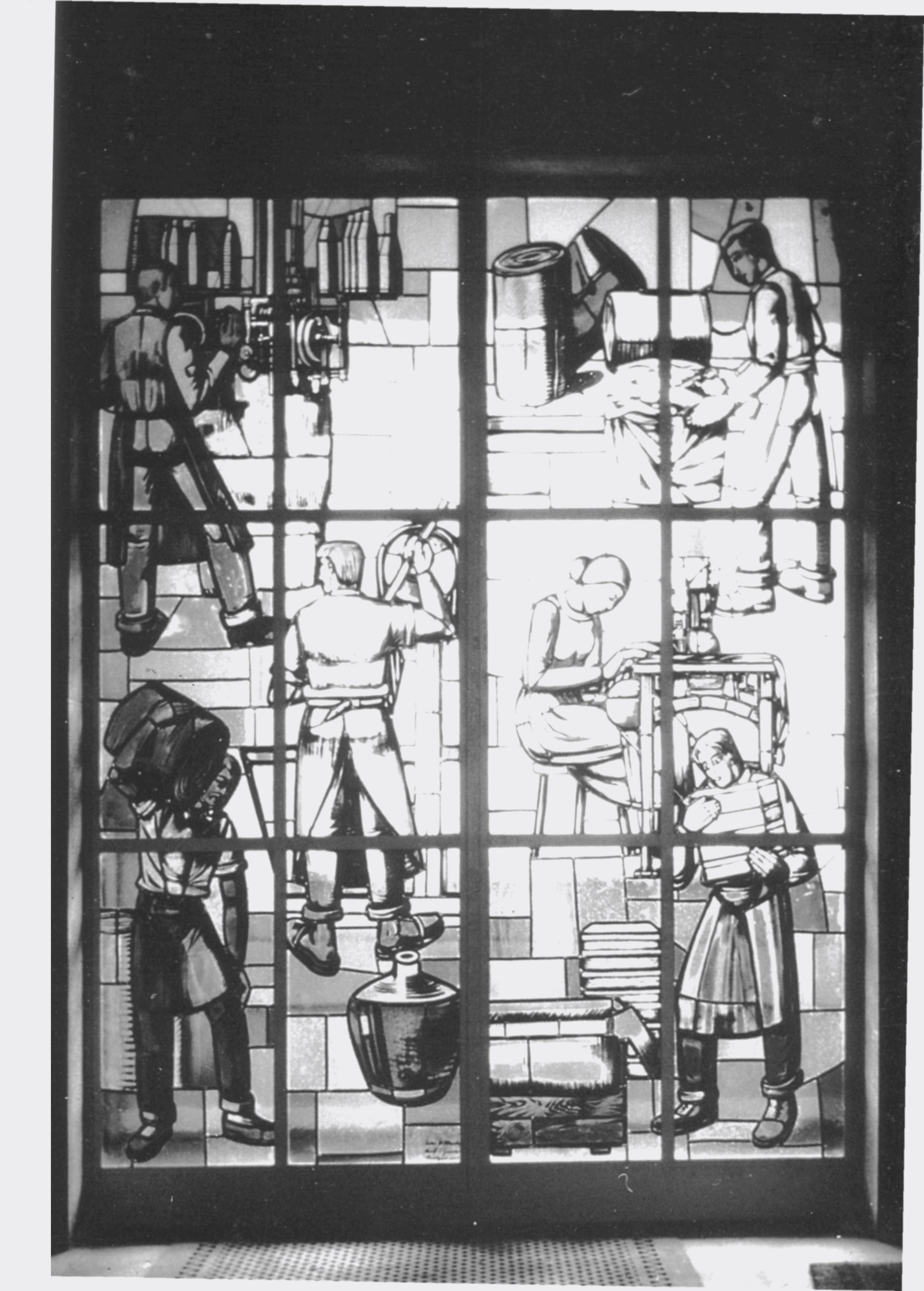 The wellknown glas-painter Johan Saile from Stuttgart in Baden-Württemberg got because of the 50th jubilee of the foundation of the enterprise the order from Paul and Julius Hakenmüller, to visualize all 6 working-steps in a complete textile-production like in their enterprise. The folding-door had its place til the pull down in the groundfloor and foyer of the in 1936 build mainadministration-building at the Goethestraße in Albstadt-Tailfingen. Today you can regard this one there in the ´Maschenmuseum`, Wasenstraße 10.